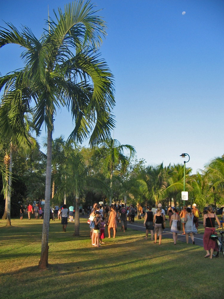 Nightcliff Seabreeze Festival. Darwin, Northern Territory